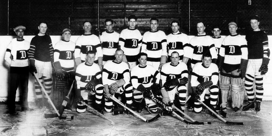 The 1926-27 Detroit Cougars. Back row, left to right: Alex Forbes (trainer), Jack Clarke, Herb Stuart, Clem Loughlin, Hobie Kitchen, Harold Halderson, Art Duncan, Frank Fredrickson, Russell Oatman, Hap Holmes, Eric Brolin. Front row, left to right: Harry Meeking, Frank Foyston, Johnny Sheppard, Jack Walker, Gizzy Hart.